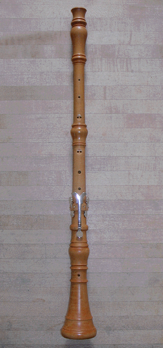 Baroque Oboe